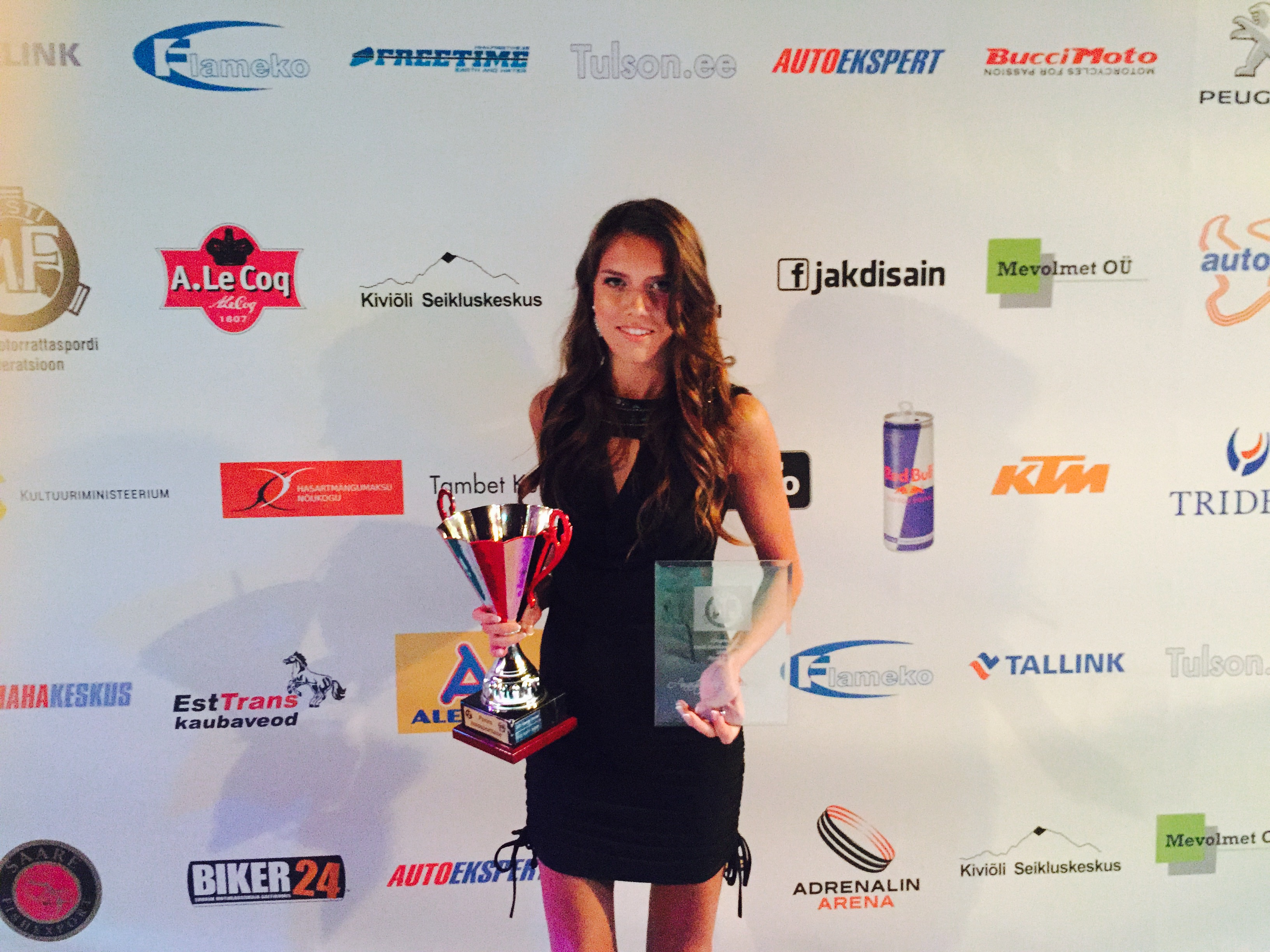 Anastassia Kovalenko in the Estonian Motorcycle Federation awards ceremony at Sokos Hotel Viru in December 2014.